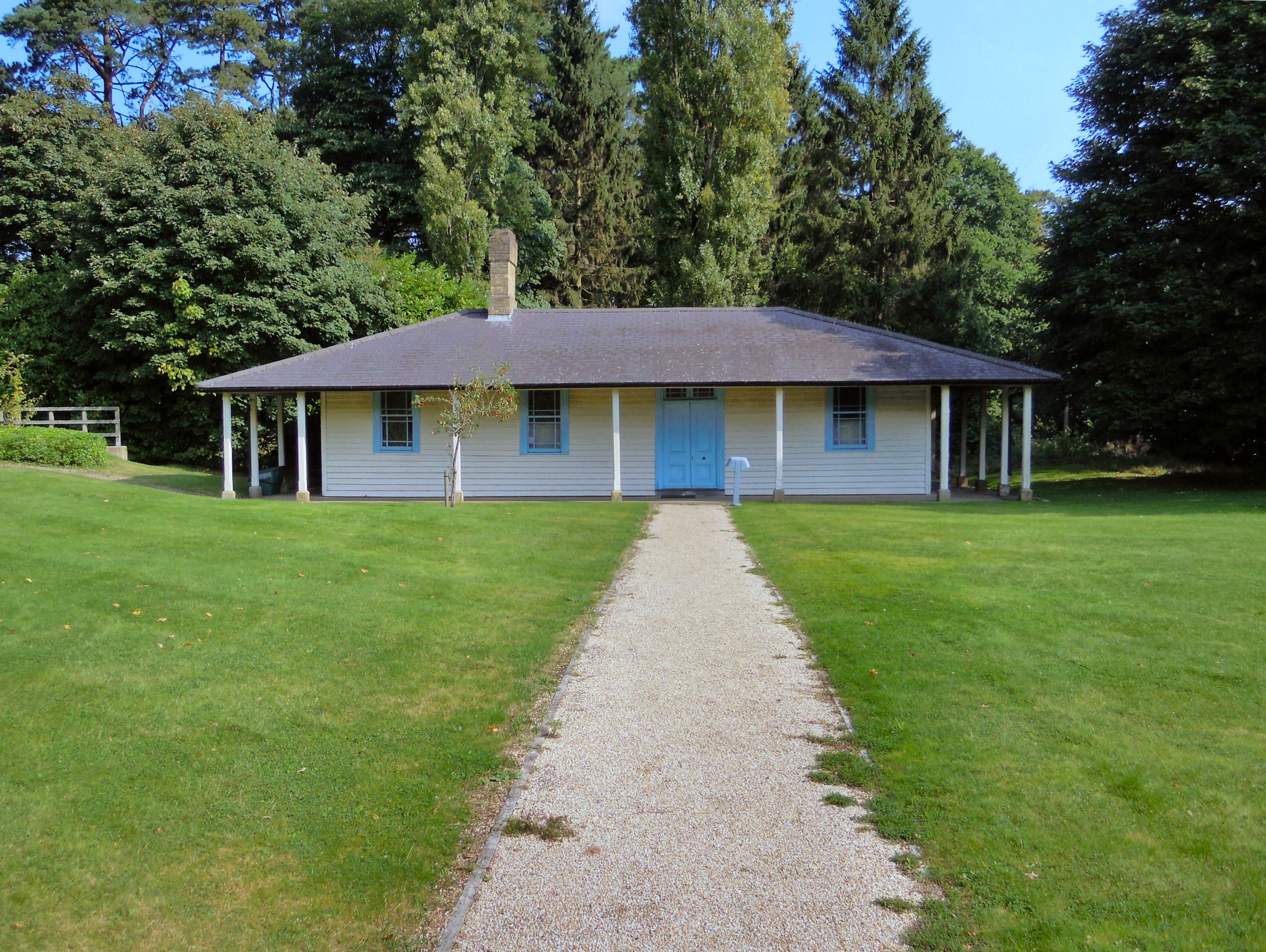 The Victorian Guardroom at the Royal Pavilion in Aldershot